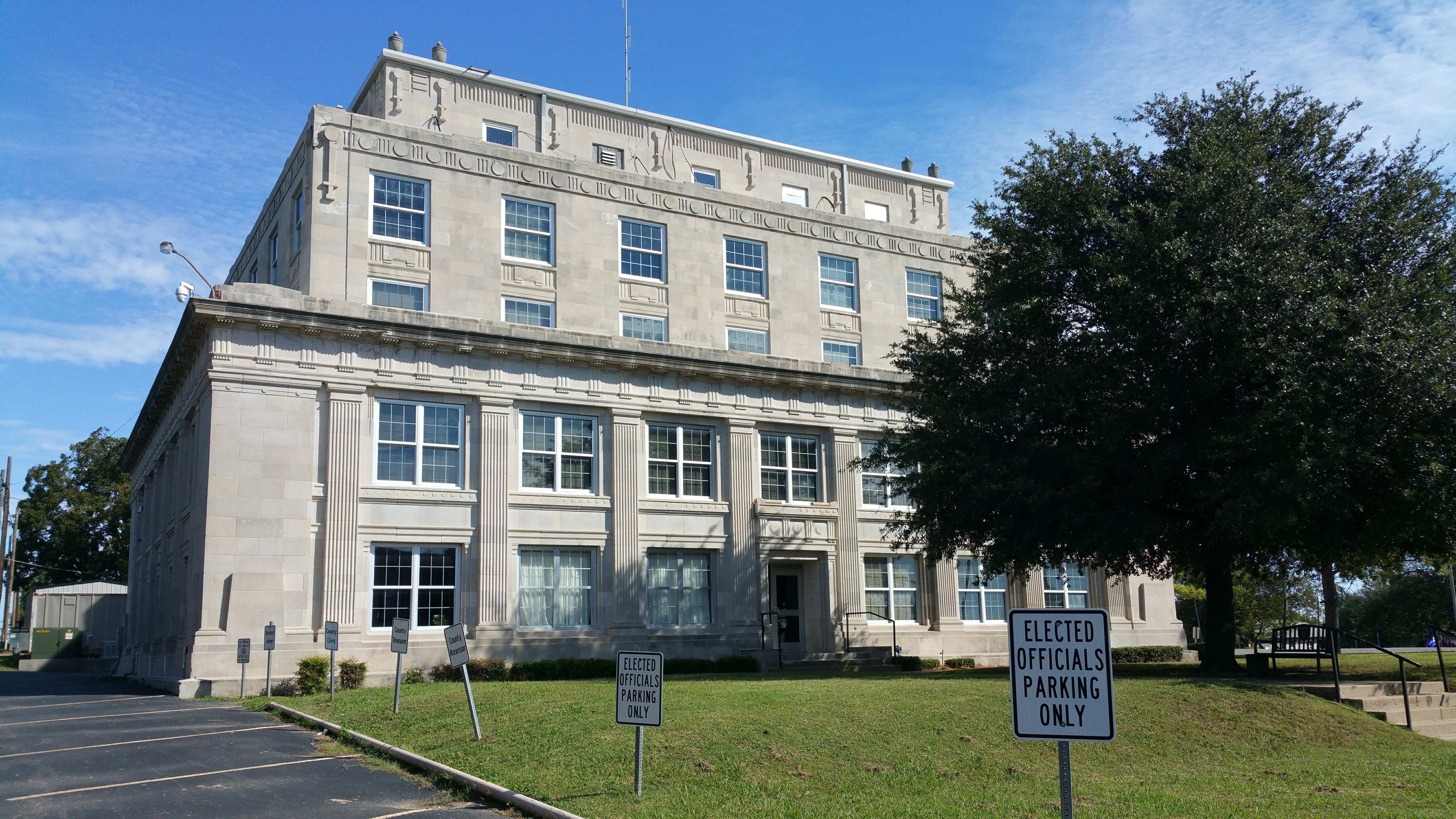 Okfuskee County Courthouse